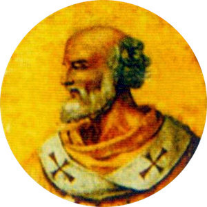 Portait of Pope Vigilius in the Basilica of Saint Paul Outside the Walls, Rome